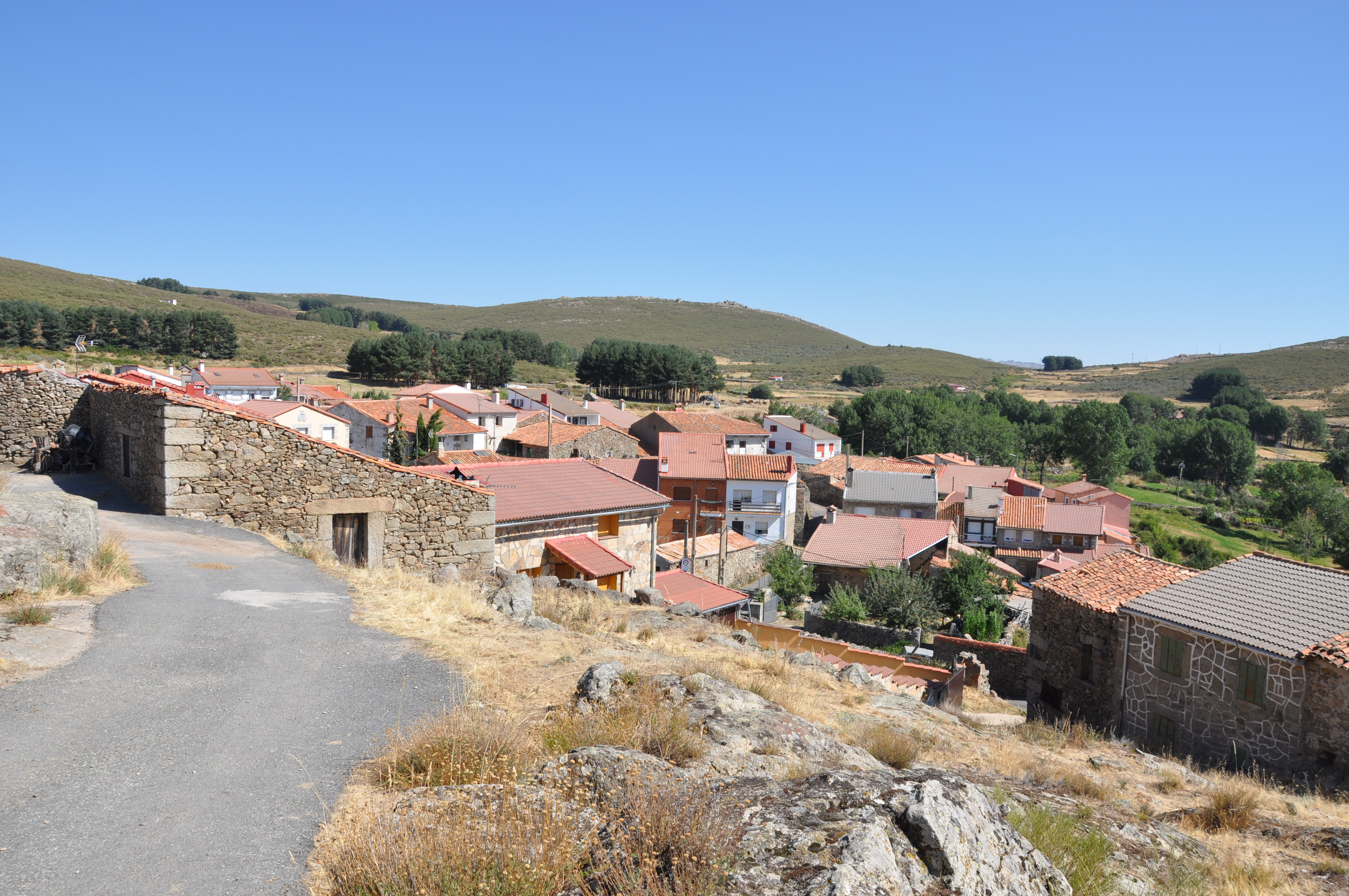 Overview of Hoyos de Miguel Muñoz, Ávila, Spain